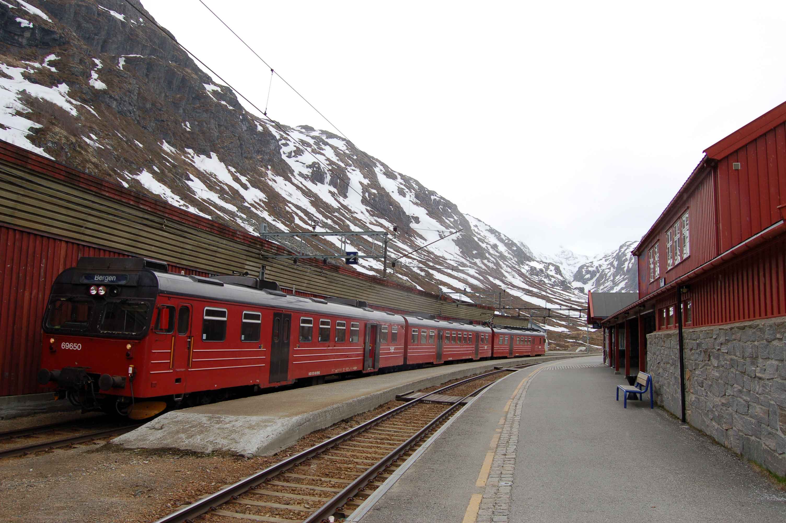 Myrdal Station on Bergensbanen with an NSB type 69 electric multiple unit.